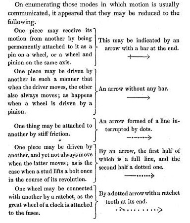 Charles Babbage, description of a sign language for mechanical components. From On a method of expressing by signs the action of machinery (1827)